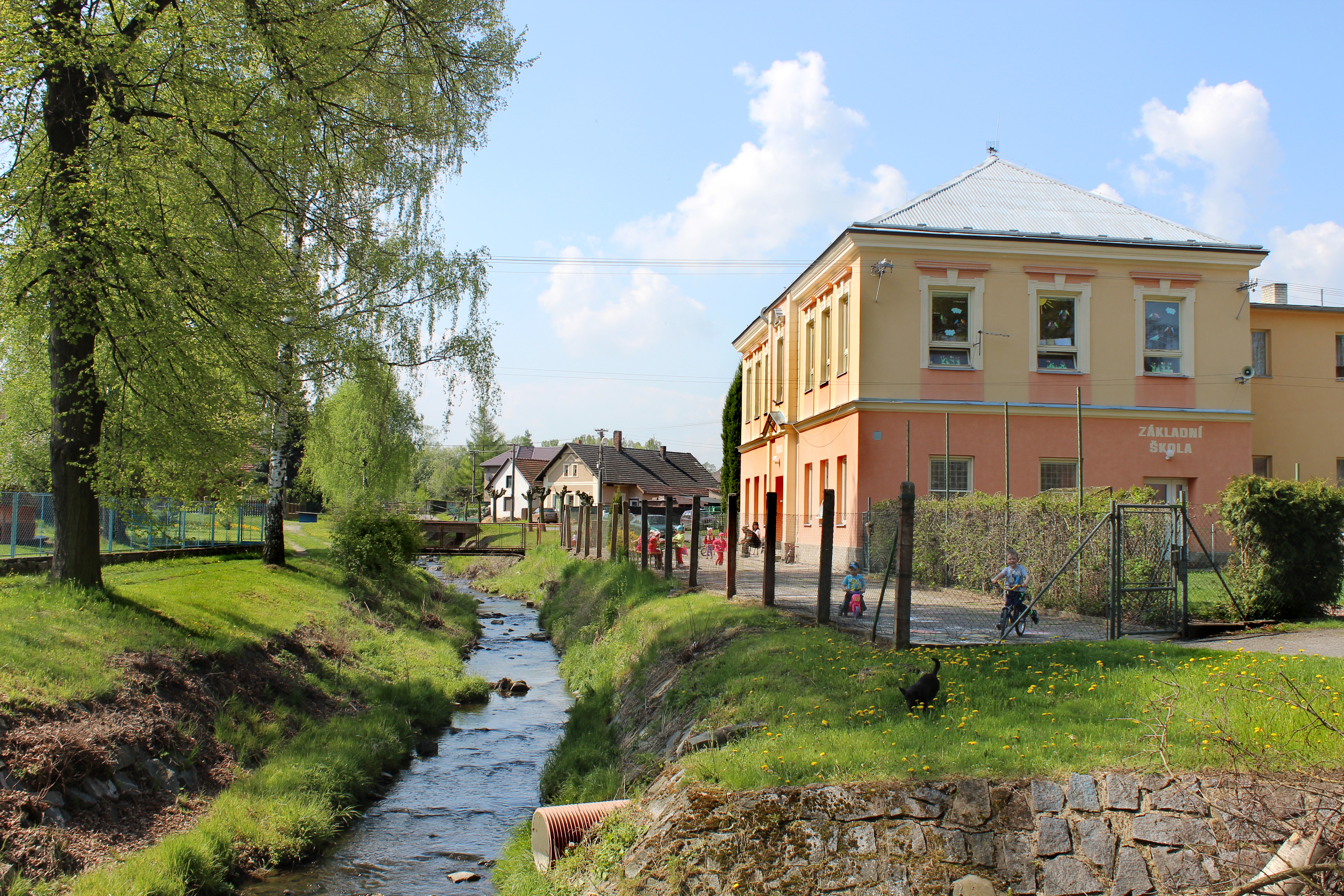 Elementary school in Žďárec u Skutče, part of Skuteč town, Czech Republic